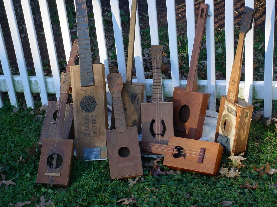 A collection of antique cigar box guitars, banjos and ukuleles. From the National Cigar Box Guitar Museum. Photo by Shane Speal. Category:Cigar box guitars Summary A collection of antique cigar box guitars, banjos and ukuleles. From the National Cigar Box Guitar Museum. Photo by Shane Speal.